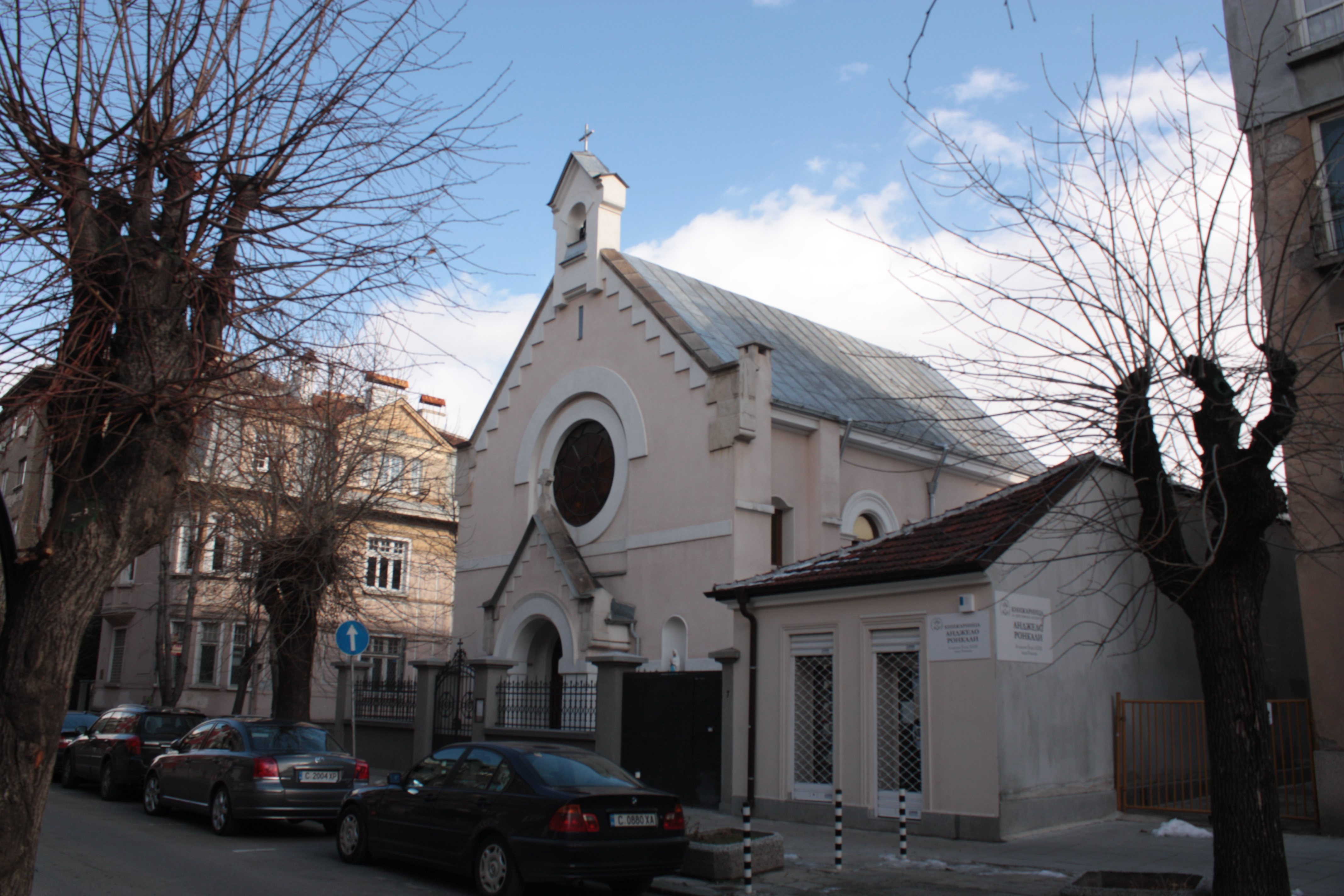 Francis of Assisi catholic church in 7 Asen Zlatarov Str. Sofia, Bulgaria